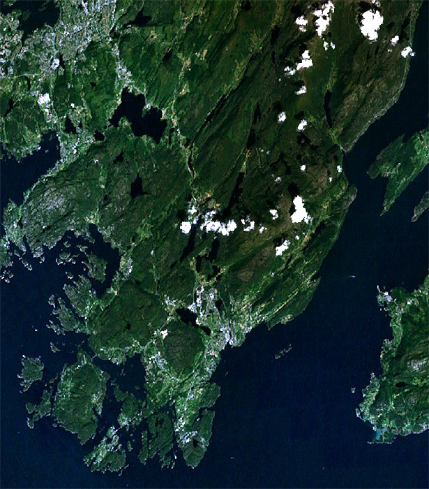 Satellite image of Os, Hordaland, Norway.